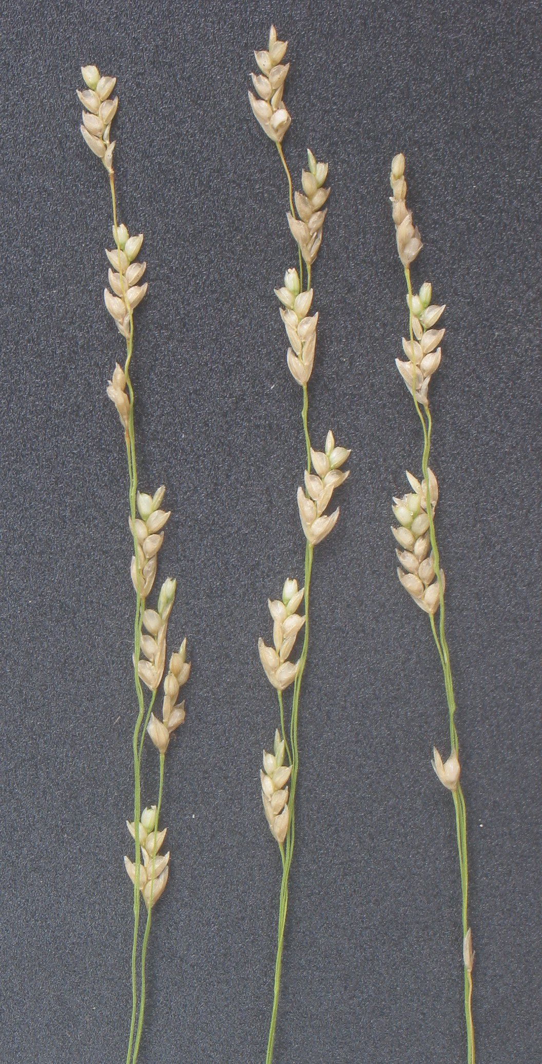 Picture taken by myself: (nl: Teff aartjes) Eragrostis tef; ((GFDL)) Eragrostis tef